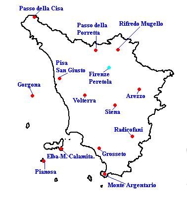 Map showing official weather stations of the Italian Air Force and ENAV in Tuscany.